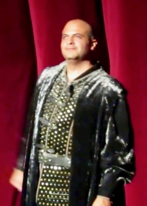 Gaston Rivero as Gabriele Adorno in Simon Boccanegra, Staatsoper Berlin 2016